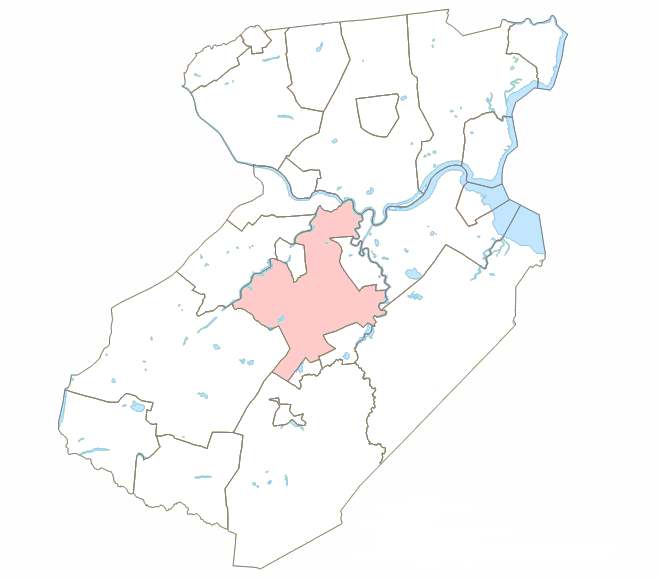 Description: Map of East Brunswick Township in Middlesex County, New Jersey Source: User:Schzmo (own work, Dec. 2006) Adapted from Image:Middlesex County, New Jersey Municipalities.png by Jim Irwin